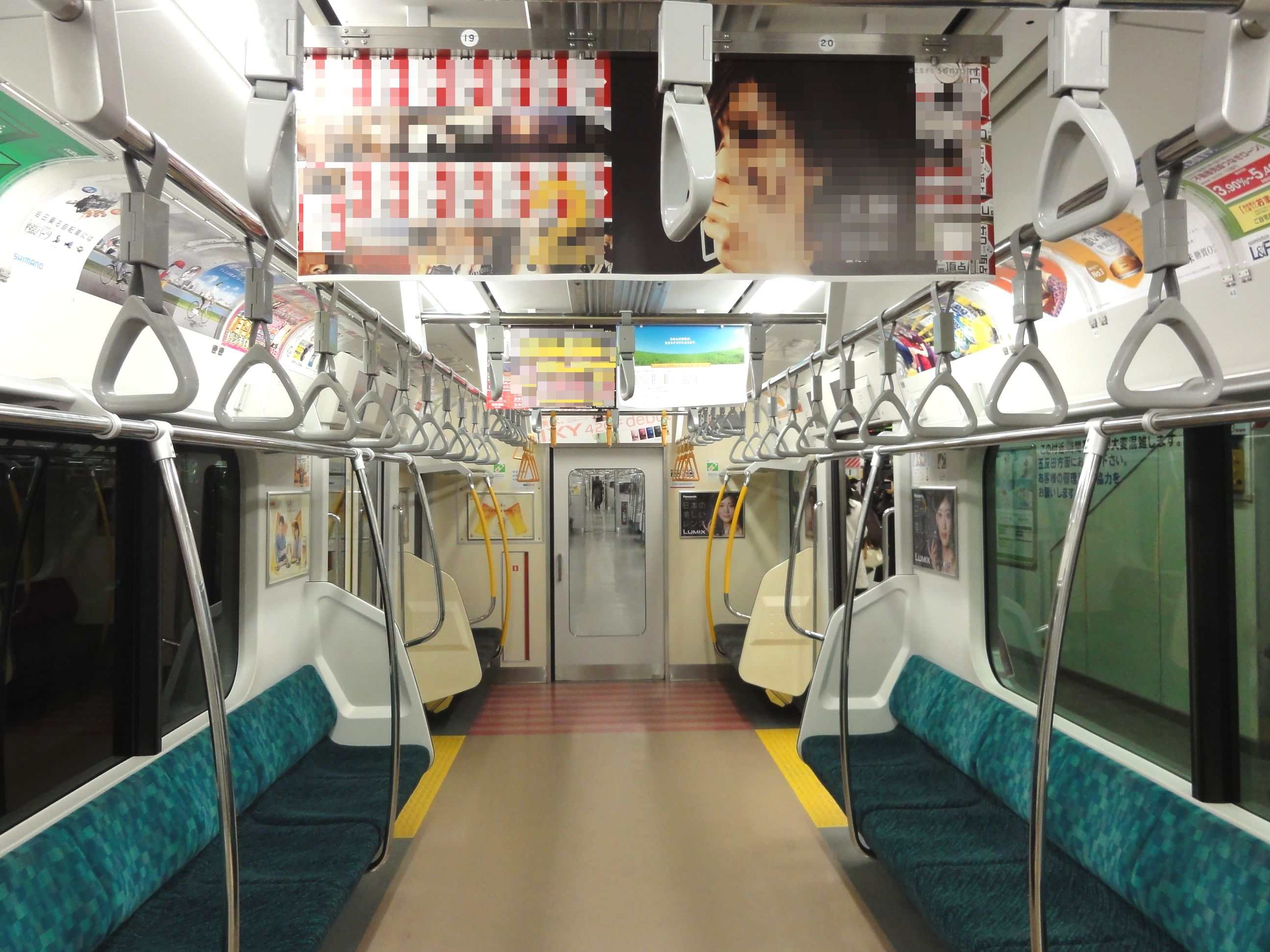 Interior view of Yamanote Line SaHa E231-4600 car, showing E233 series derived design